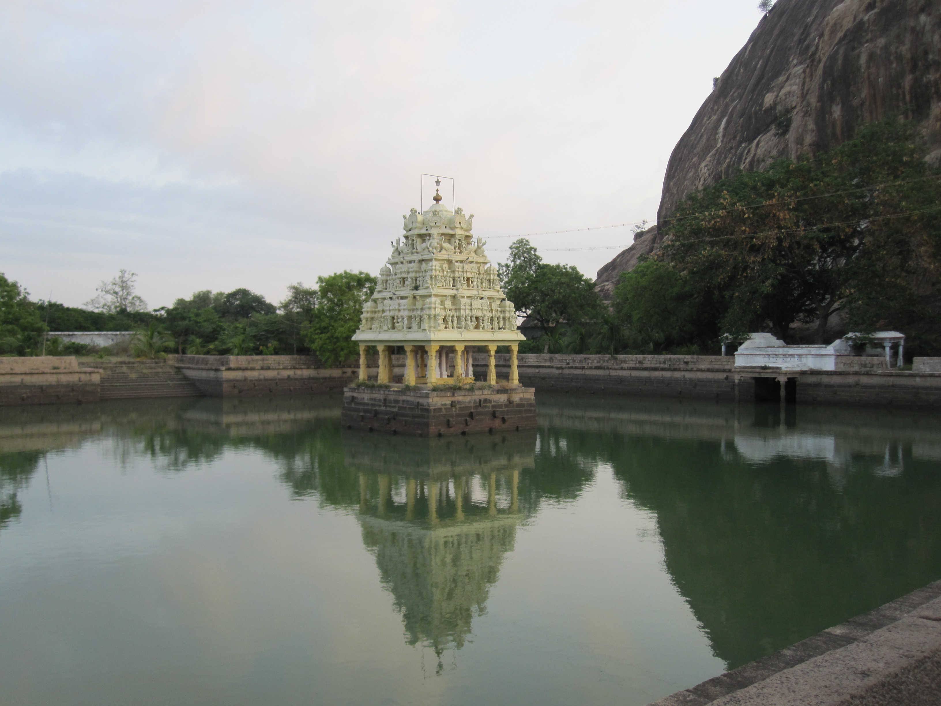 Kazhugumalai temple pond, Tamil Nadu